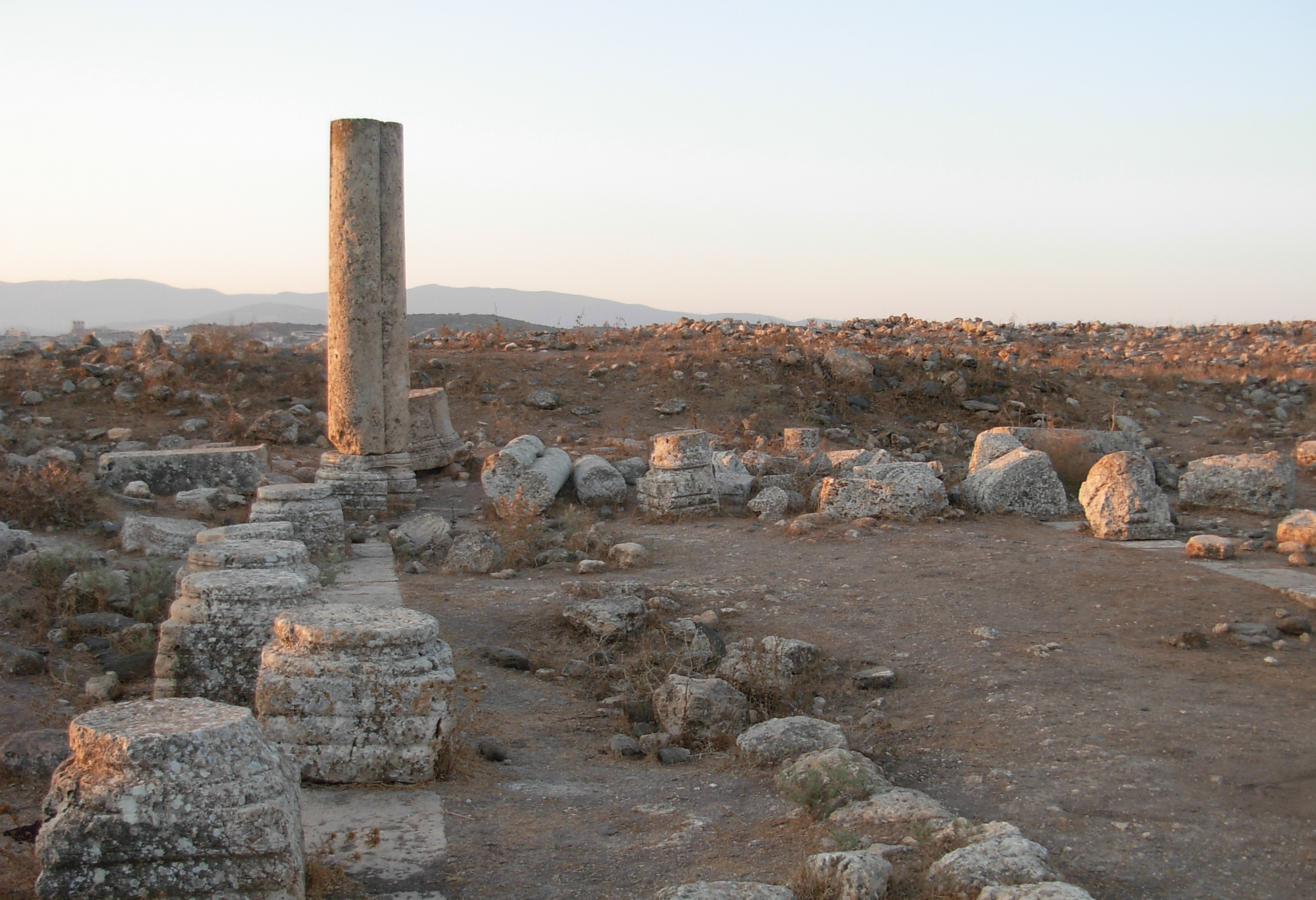 Ancient synagouge "Sdeh Amudim"